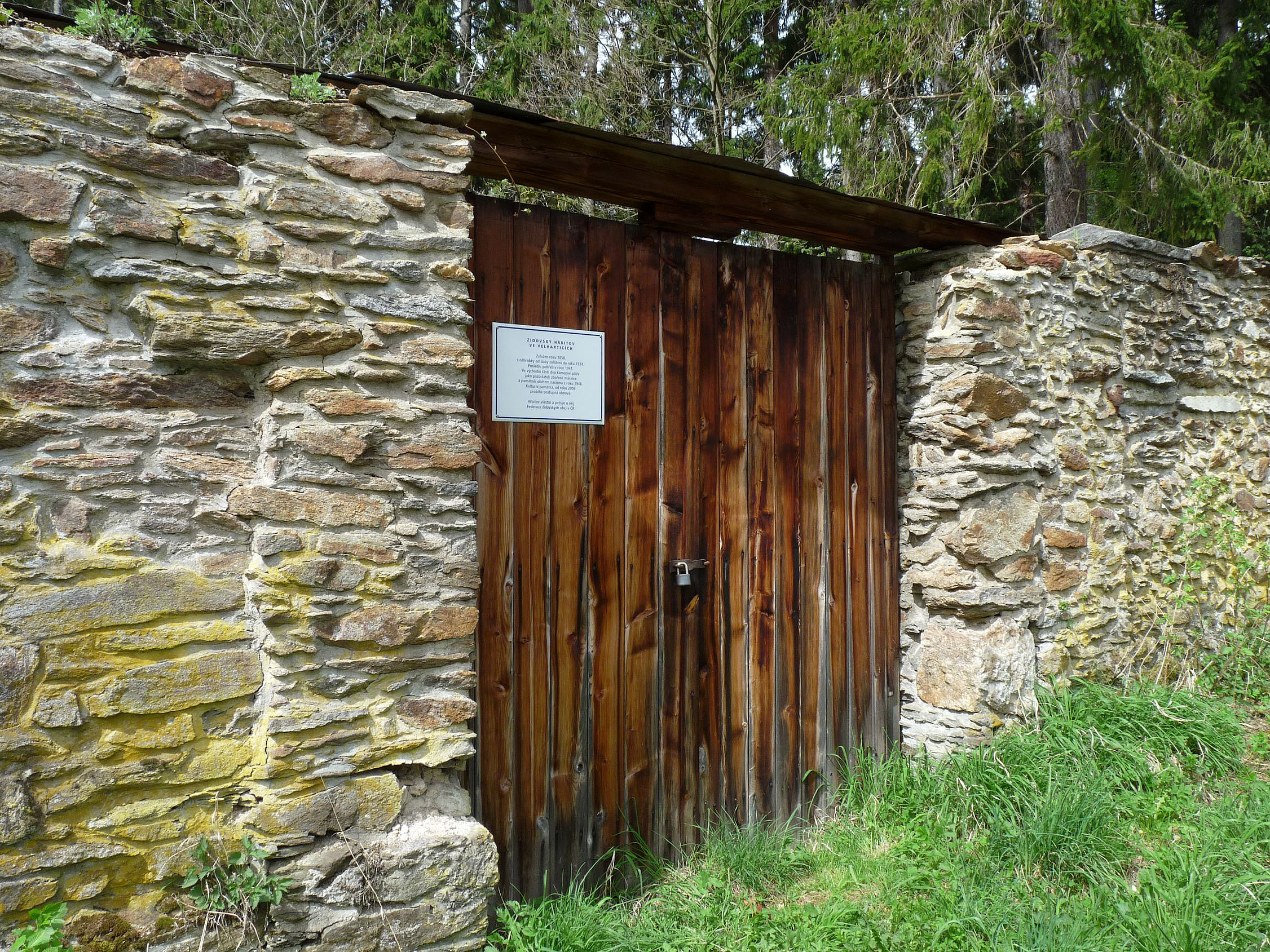 Jewish cemetery in Velhartice, Klatovy District, Czech Republic